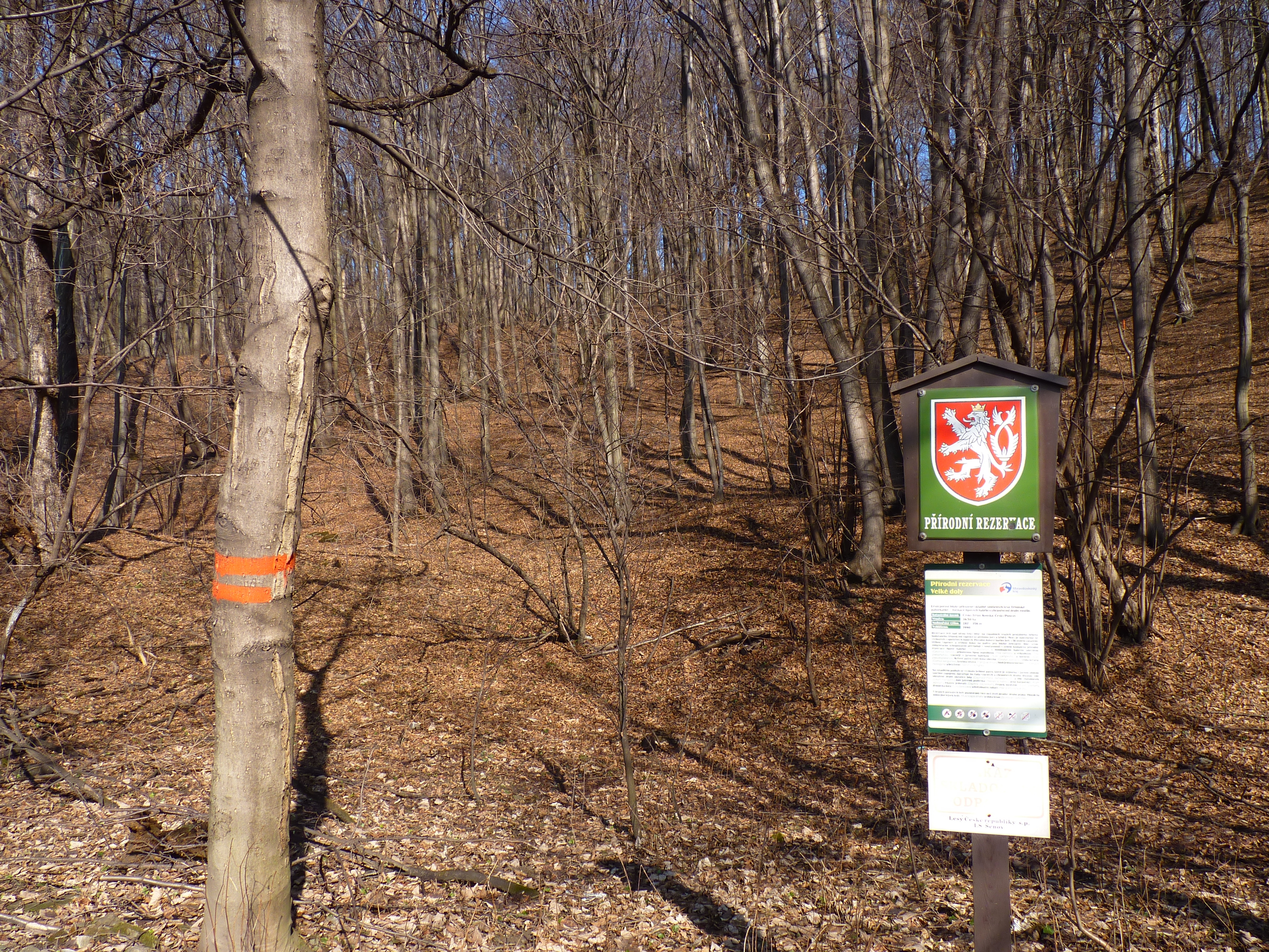 Velké doly, nature reserve in Karviná District, Moravian-Silesian Region, Czech Republic Project: Chráněná území